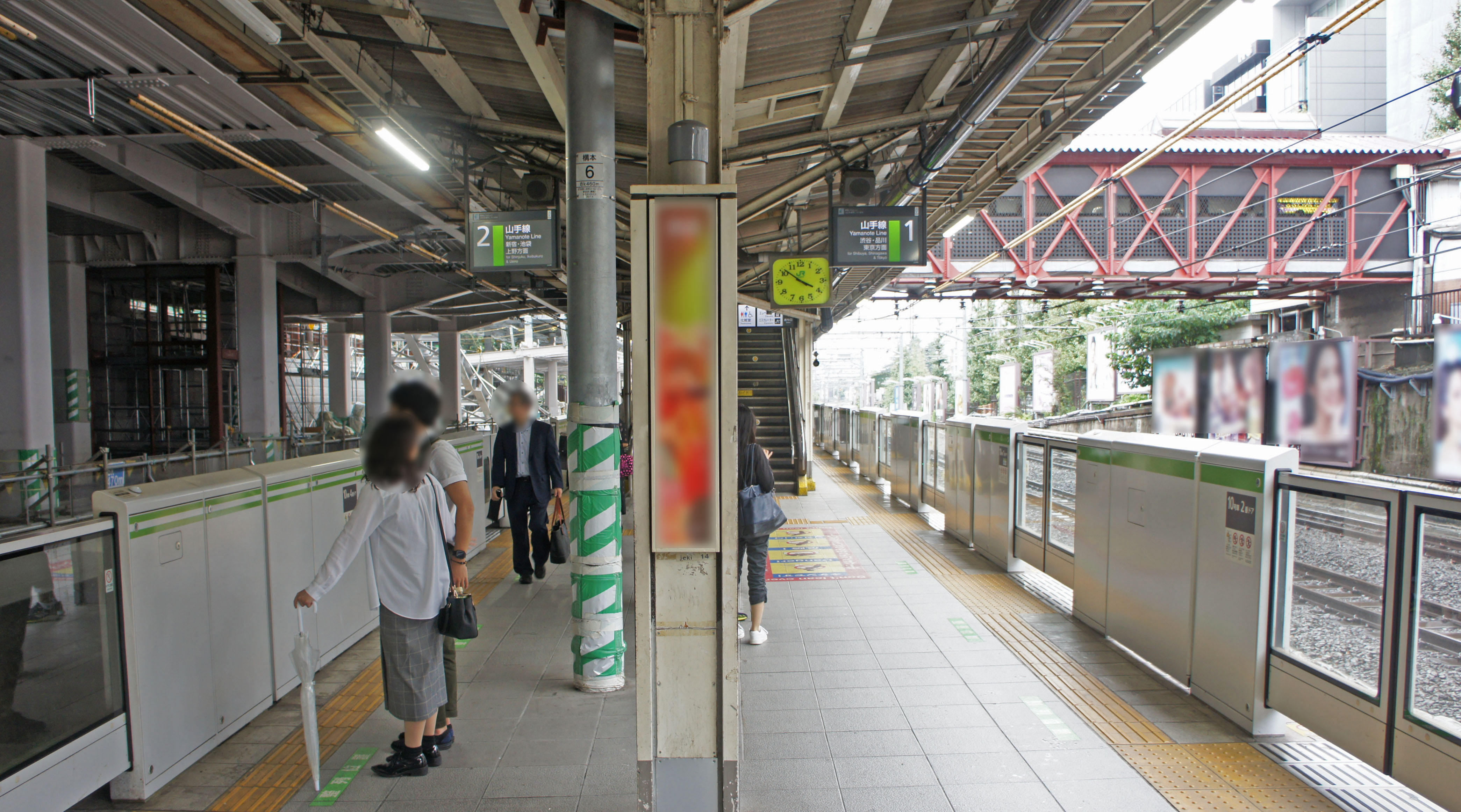 Platform of JR Yamanote-Line Harajuku Station